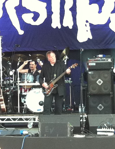 Barry Devlin at LondonFeis2011